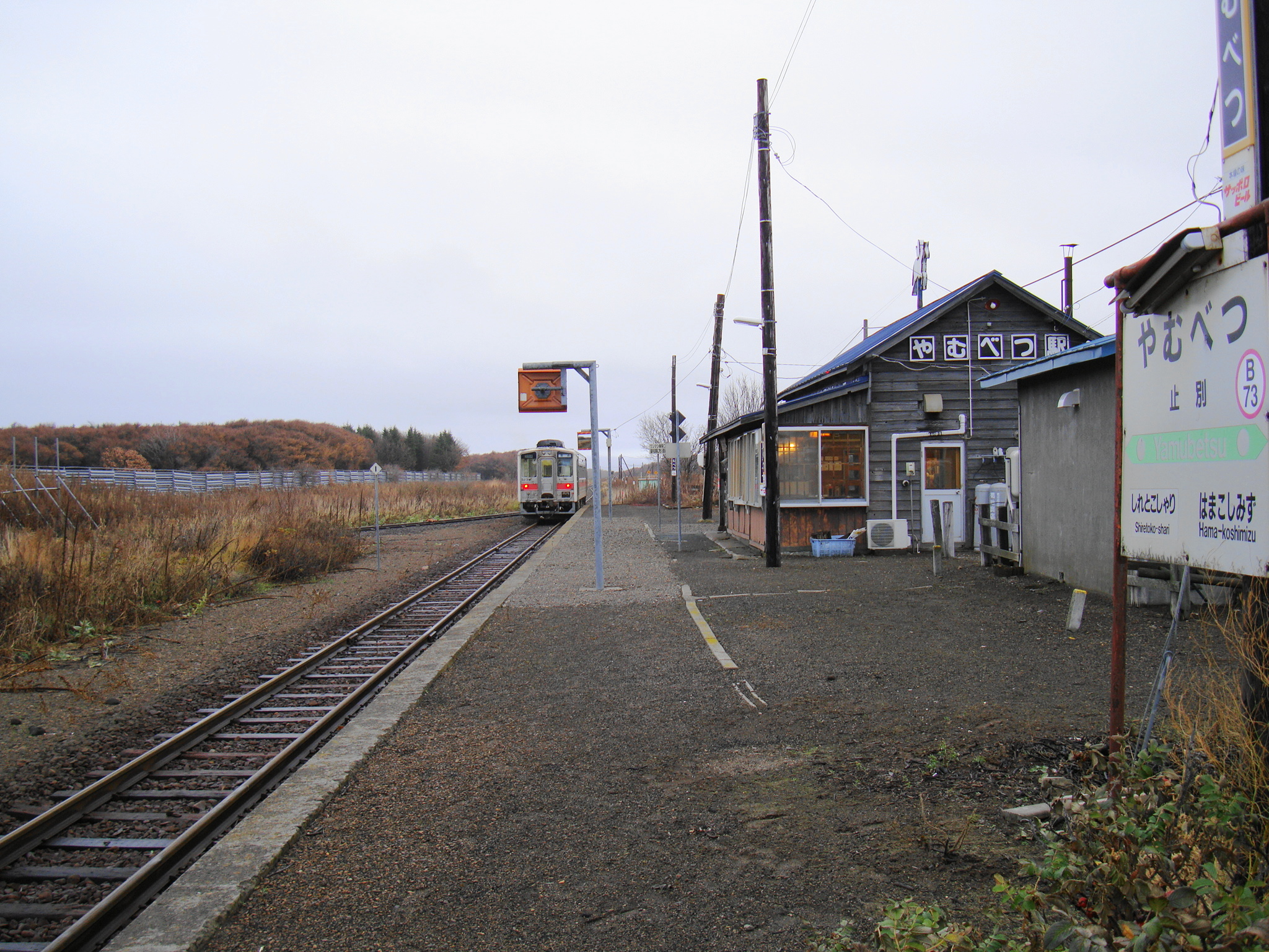 Yamubetsu Station